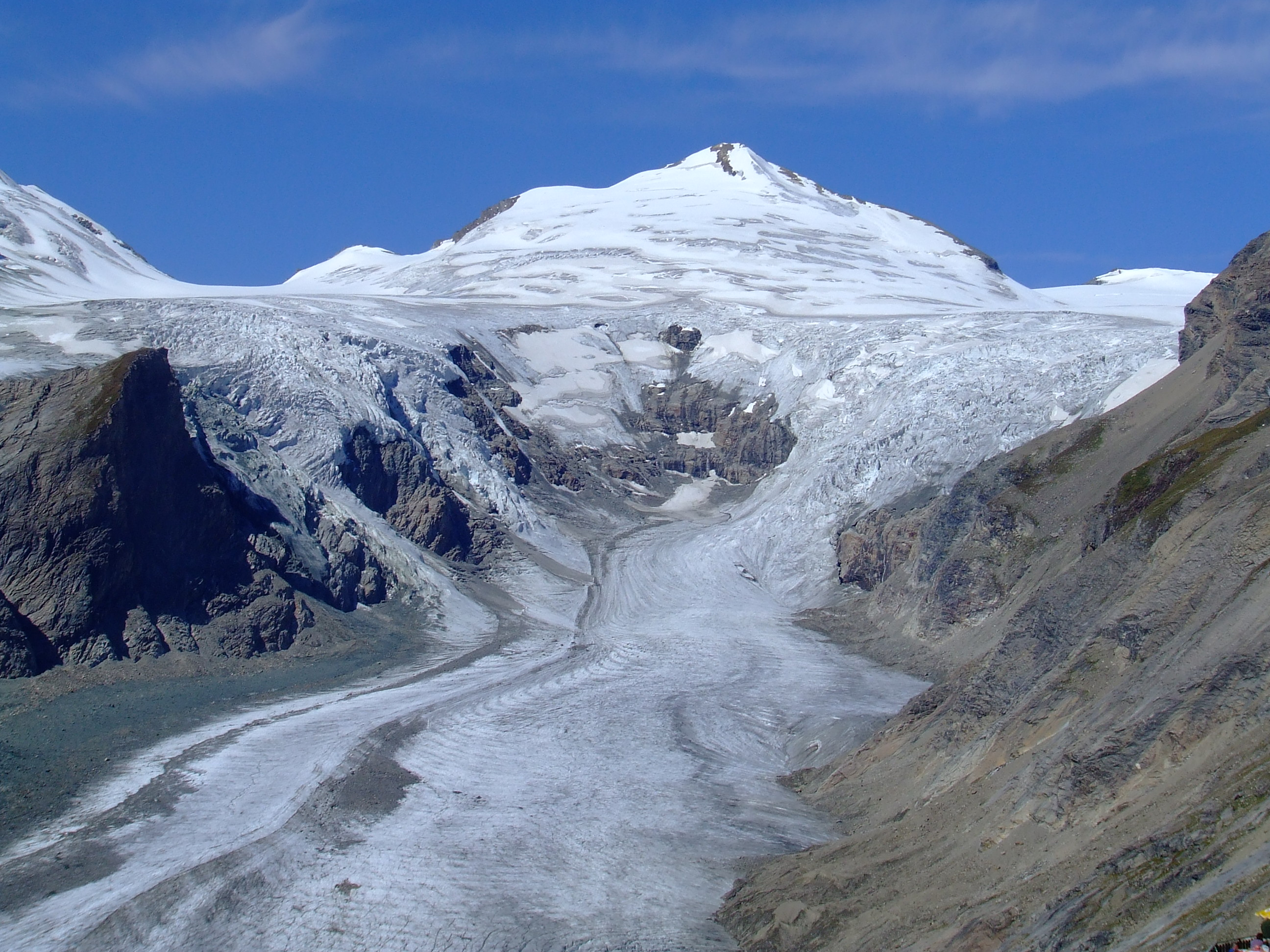 Johannisberg as seen from Kaiser-Franz-Josefs Höhe, with the Pasterze Glacier